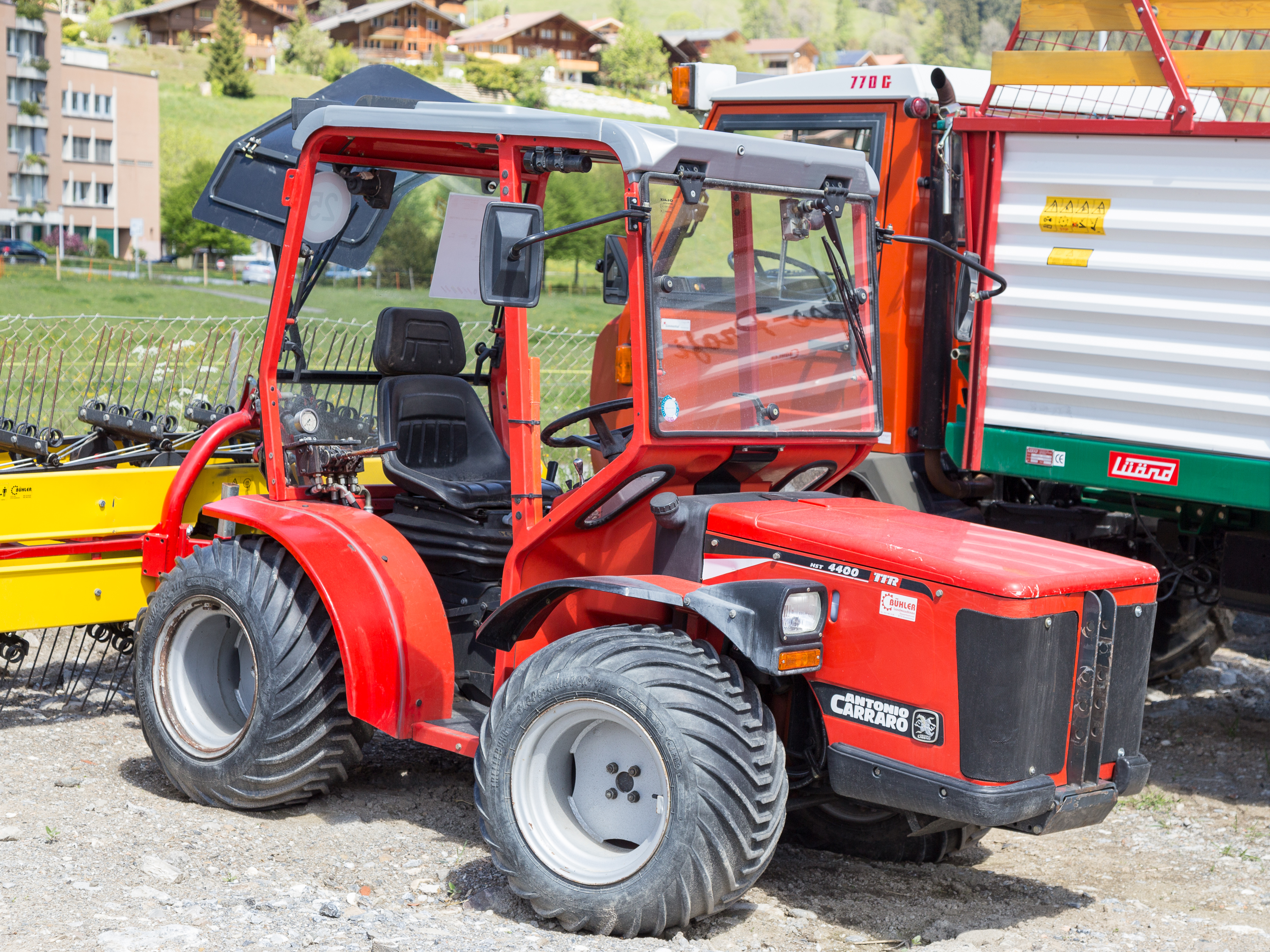 Antonio Carraro HST 4400 TTR